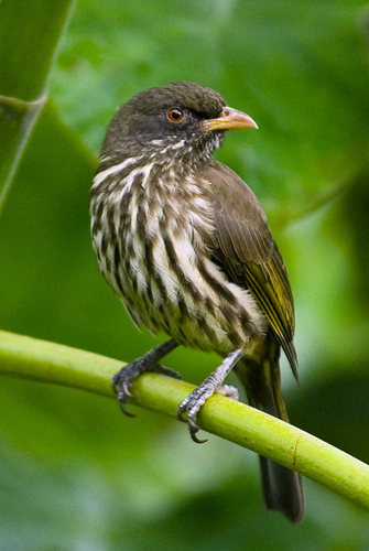 Ave Nacional Cigua Palmera